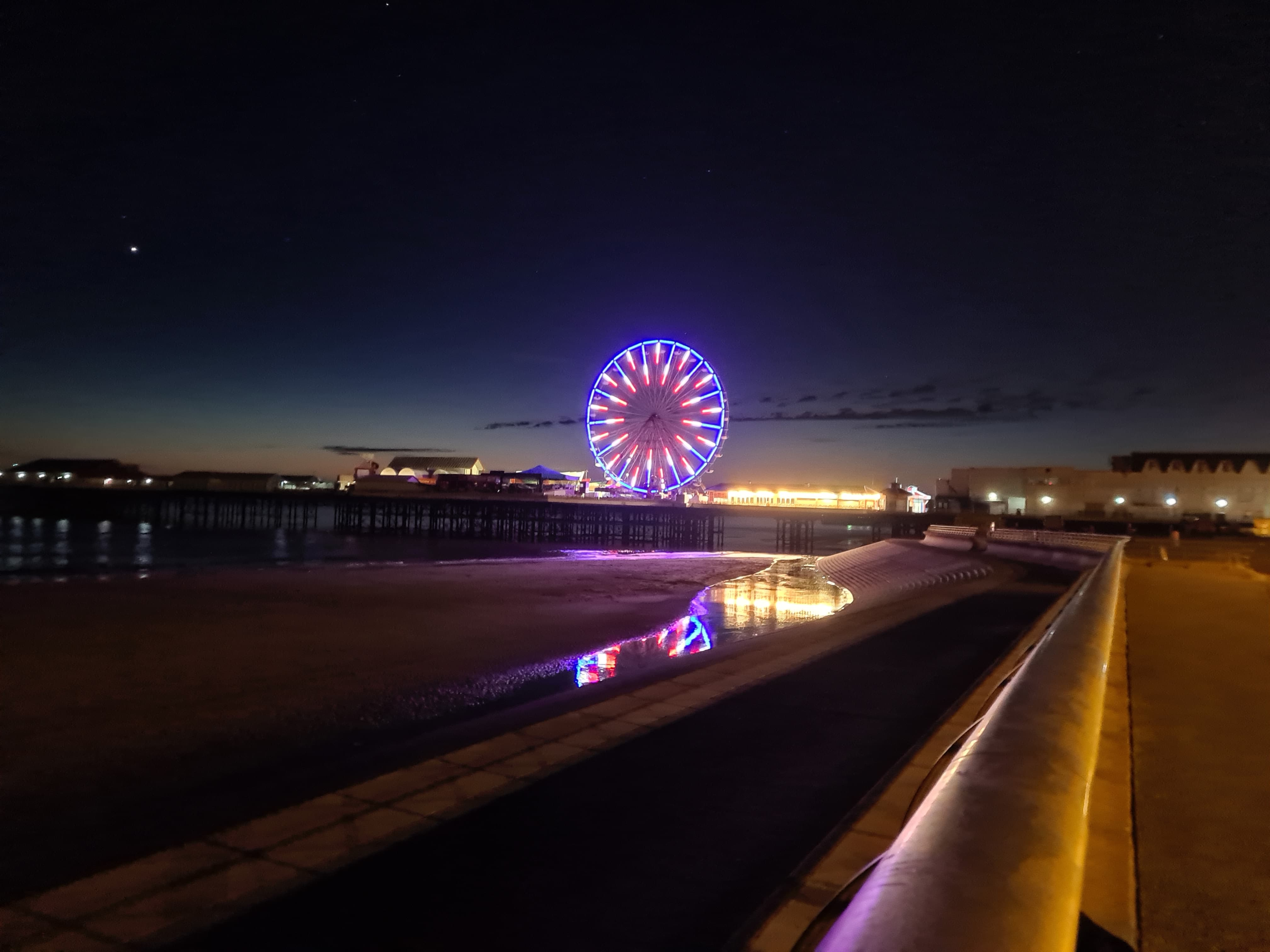 Central Pier and Central Wheel at night